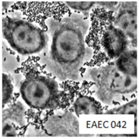 Enteroaggregative E. coli strain EAEC 042 aggregates during infection of Hep-2 cells.